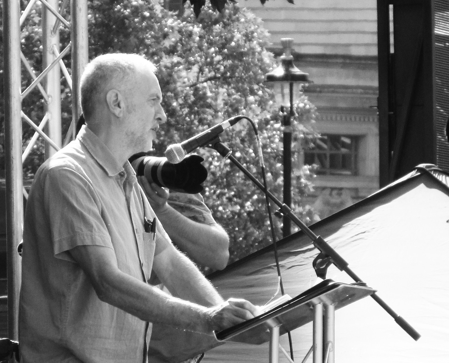 The People's Assembly National Demonstration Jeremy Corbyn MP 21 June 2014 124